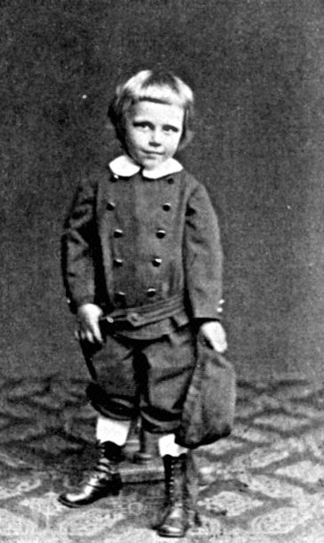 The german writer and film pioneer Hanns Heinz Ewers at the age of 4.